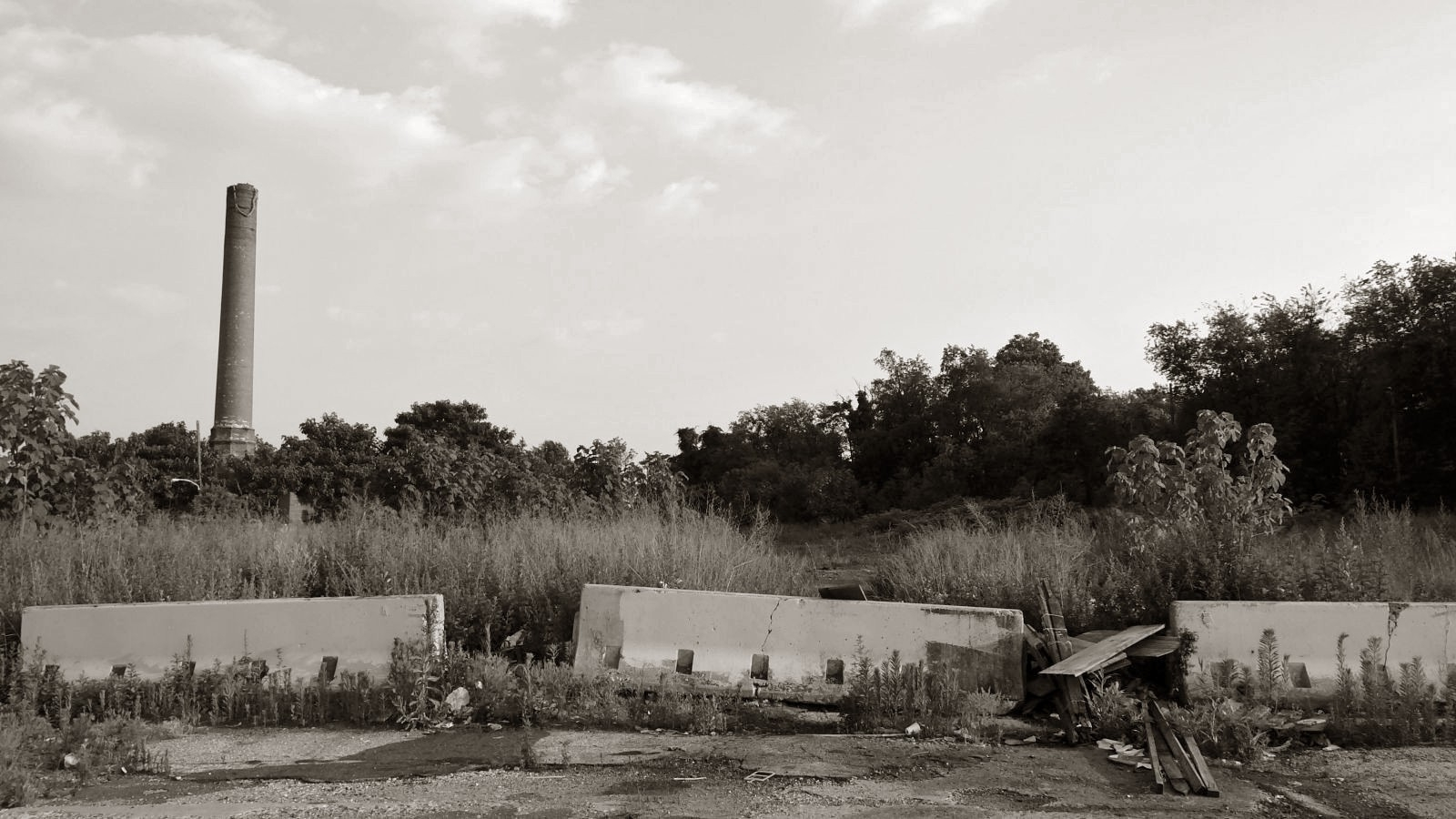 Blighted, trash filled land in the Kensington section of Philadelphia